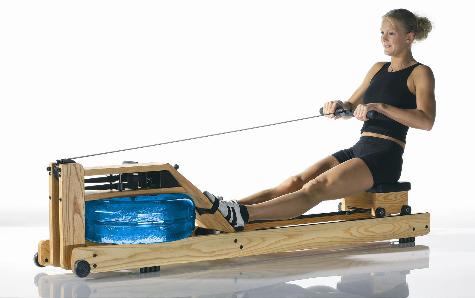 WaterRower Rowing Simulator.